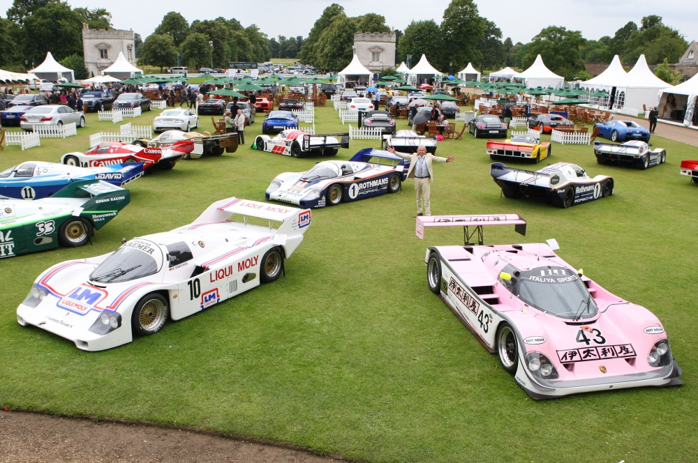 Derek Bell with a number of the Porsche race cars that raced over the course of his career at Salon Prive